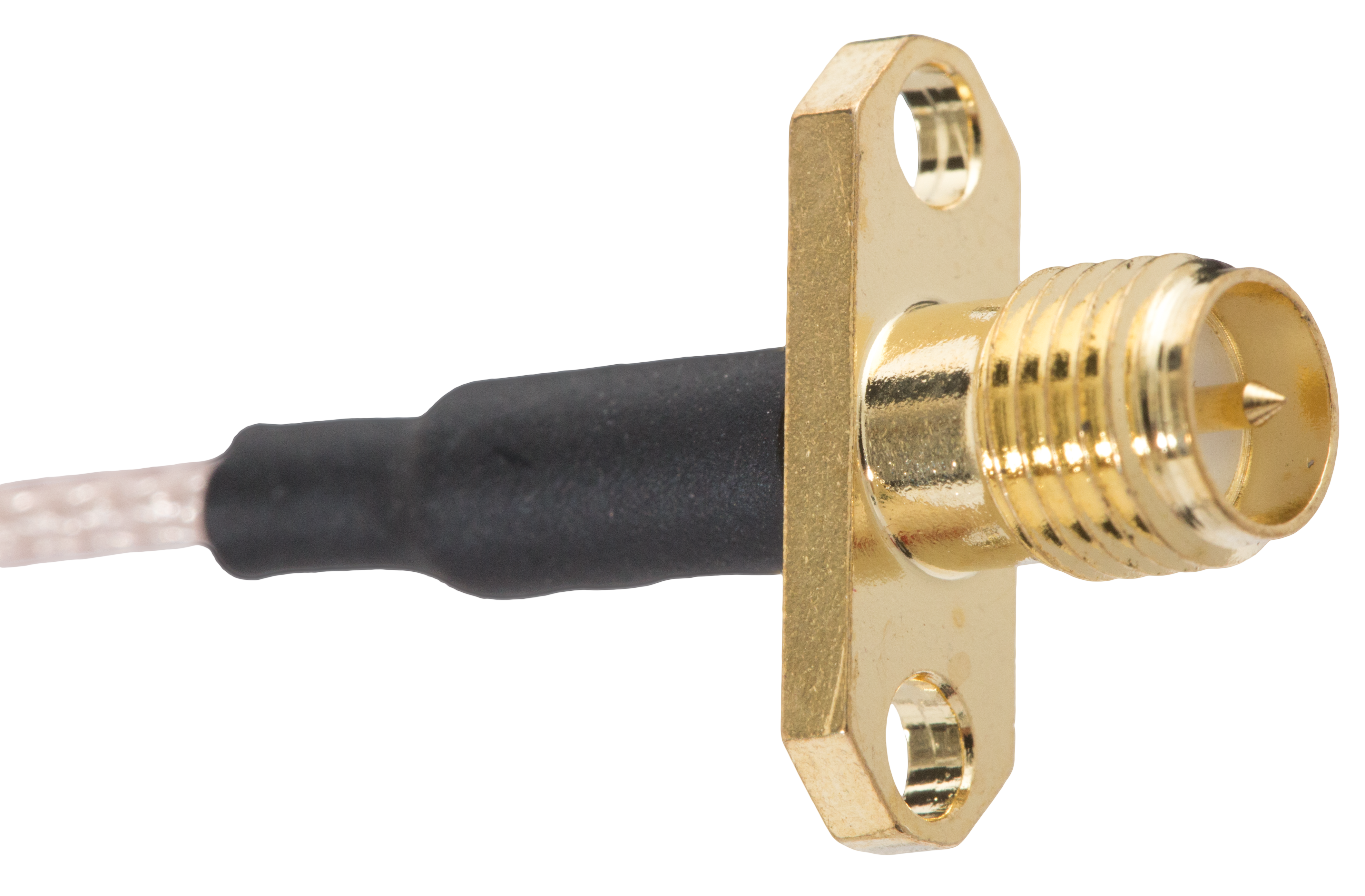 RP-SMA connector with coaxial cable